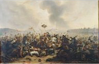 Battle before Nicea (1097)